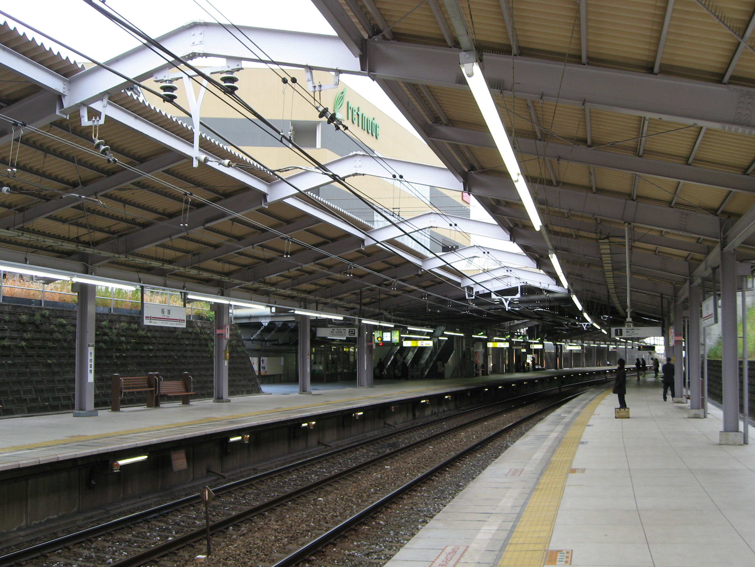 Platform of Inagi Station on Keio Sagamihara Line in Inagi, Tokyo, Japan.